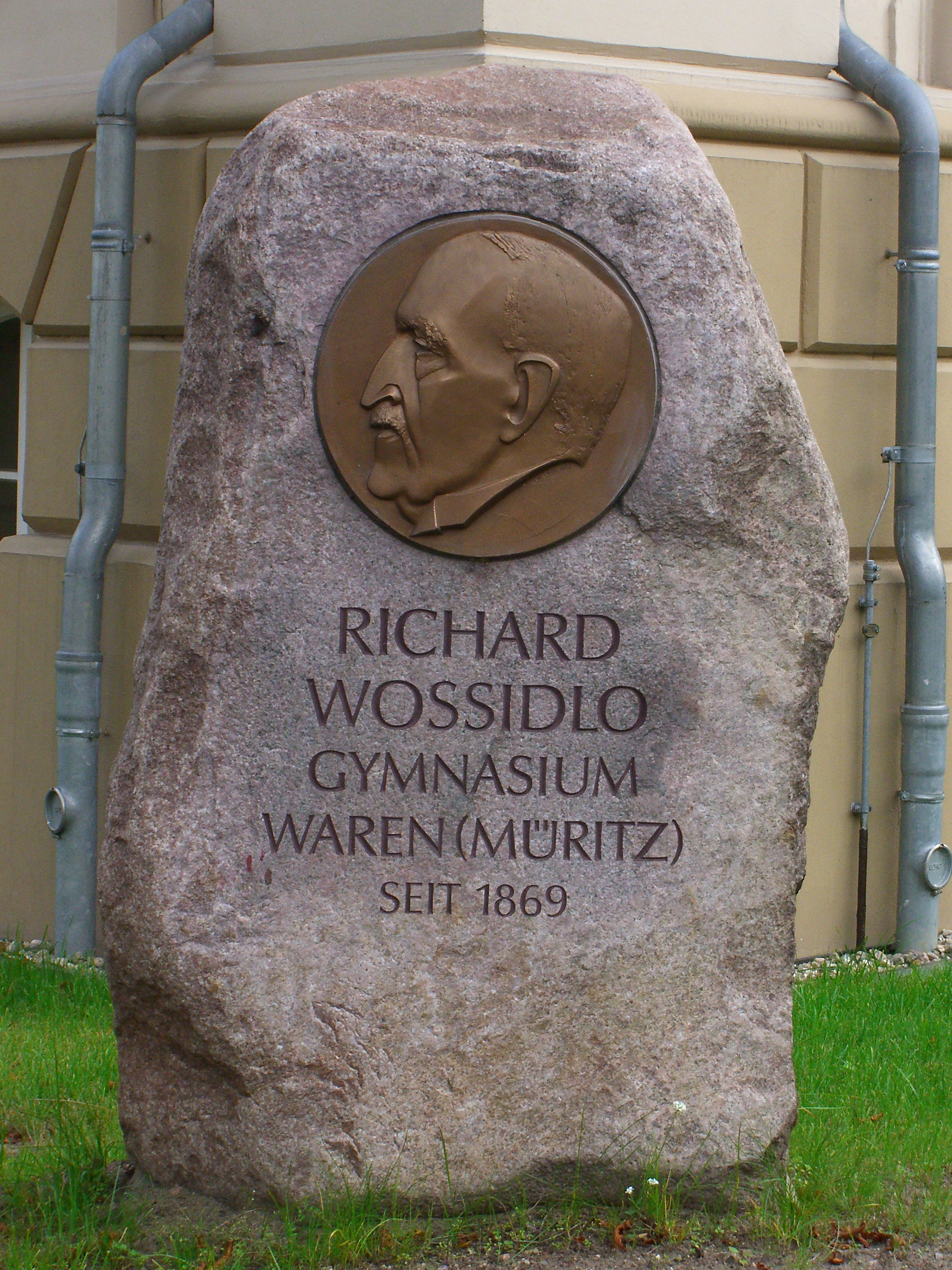 memorial to Richard Wossidlo in Waren (Müritz)